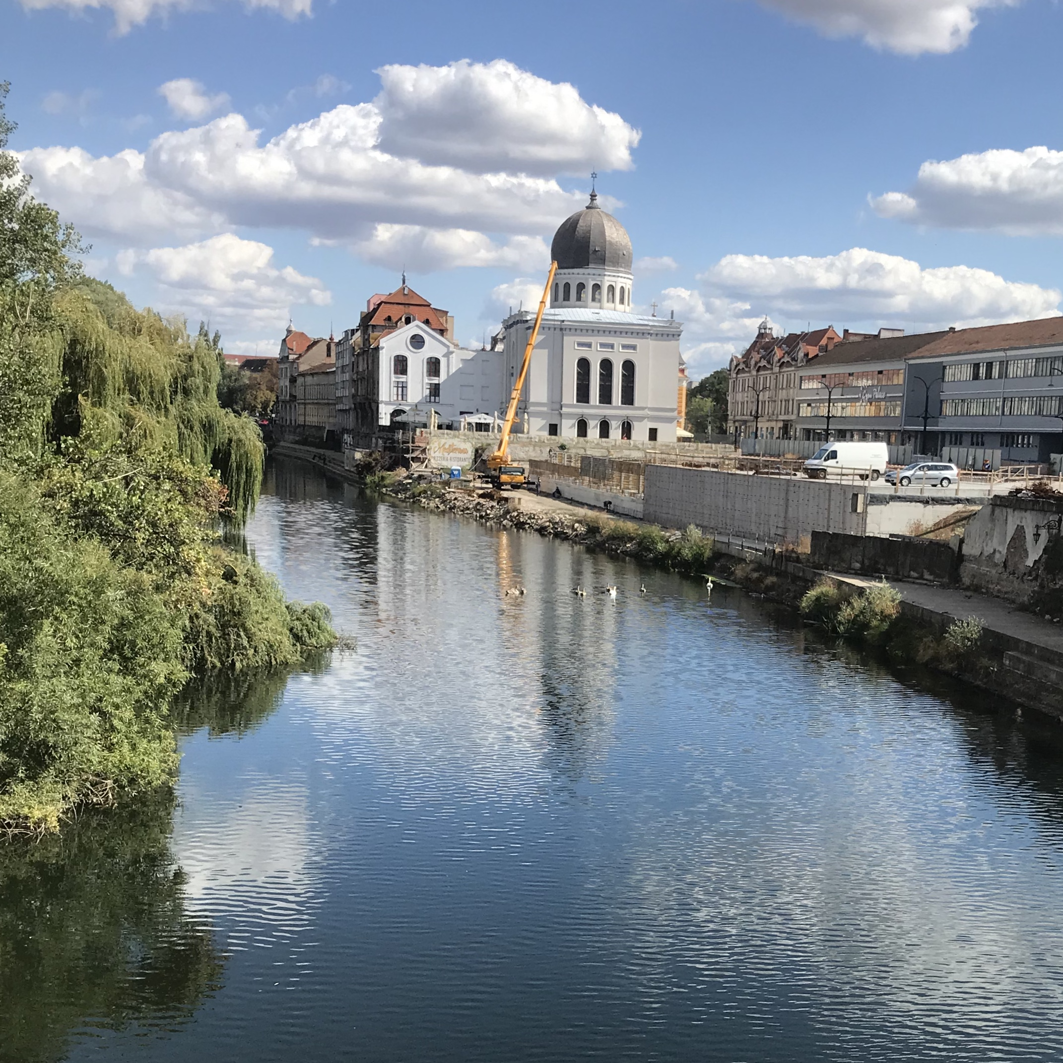 Oradea Synagogue